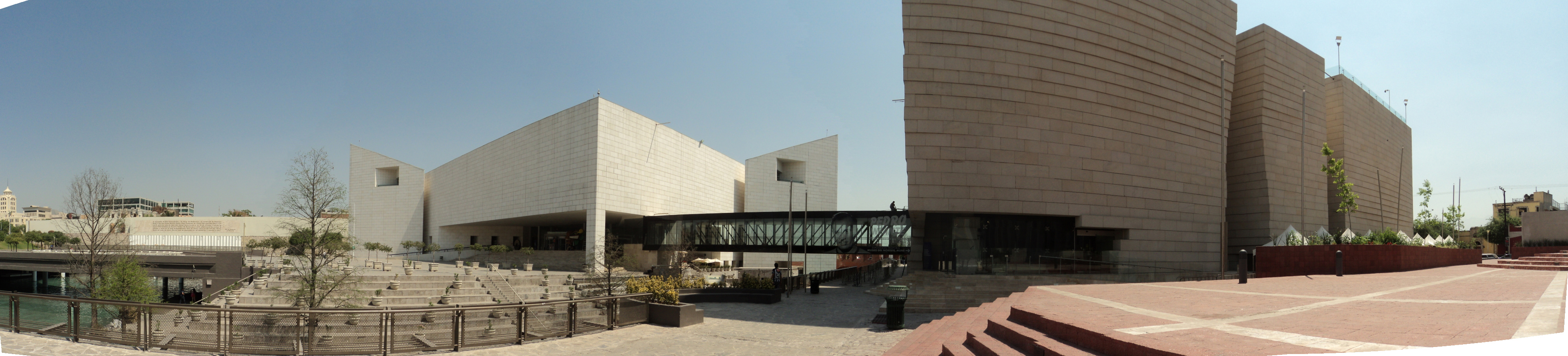 Museum of Mexican History and Museum of the Northeast.